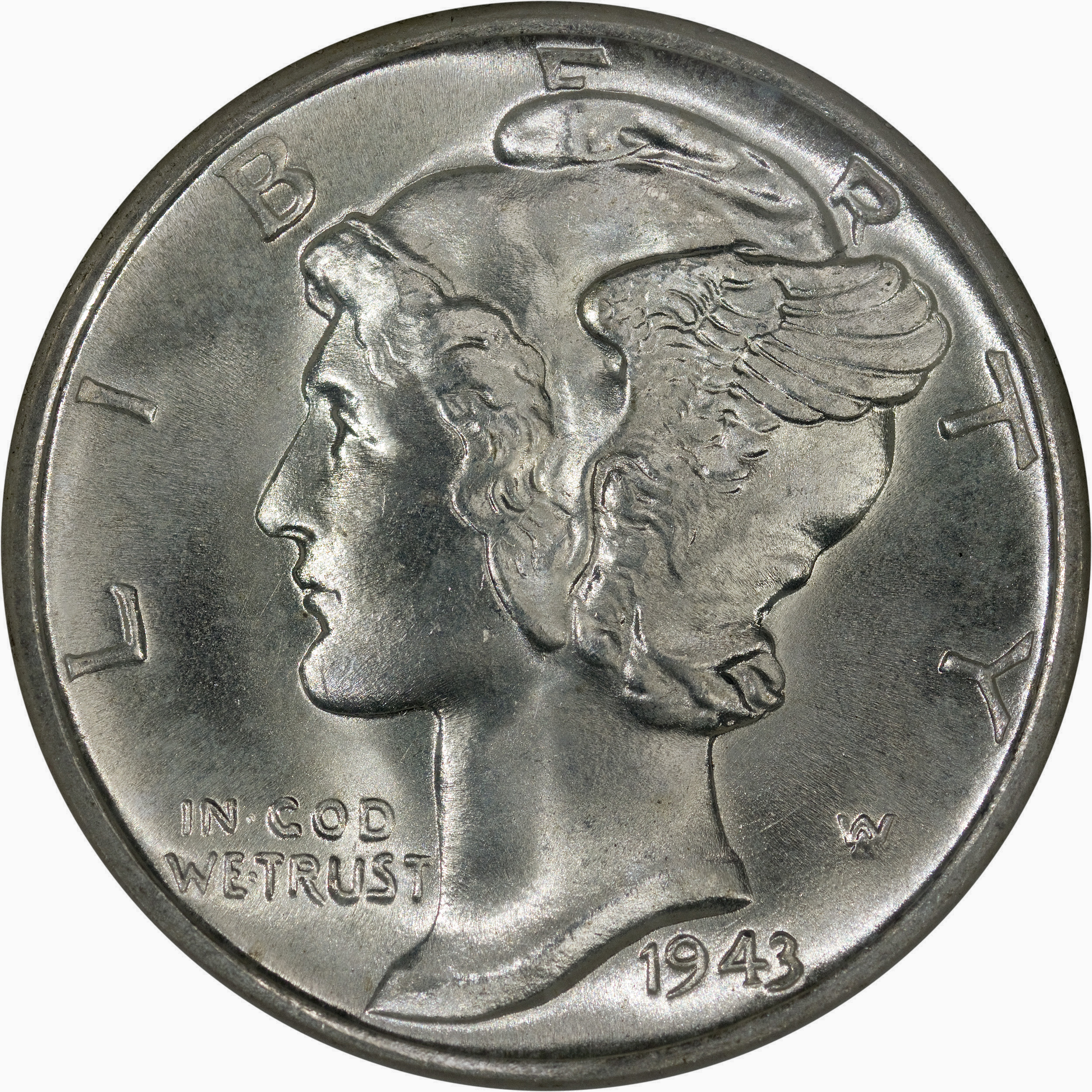 The obverse of a Mercury dime minted in 1943 in Denver. The mint mark is on the reverse of the coin (see other related file). This coin is uncirculated exhibiting full luster and strike.